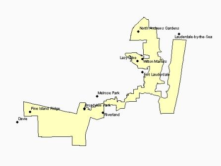 Map of House District 92 (1992-2001 maps)